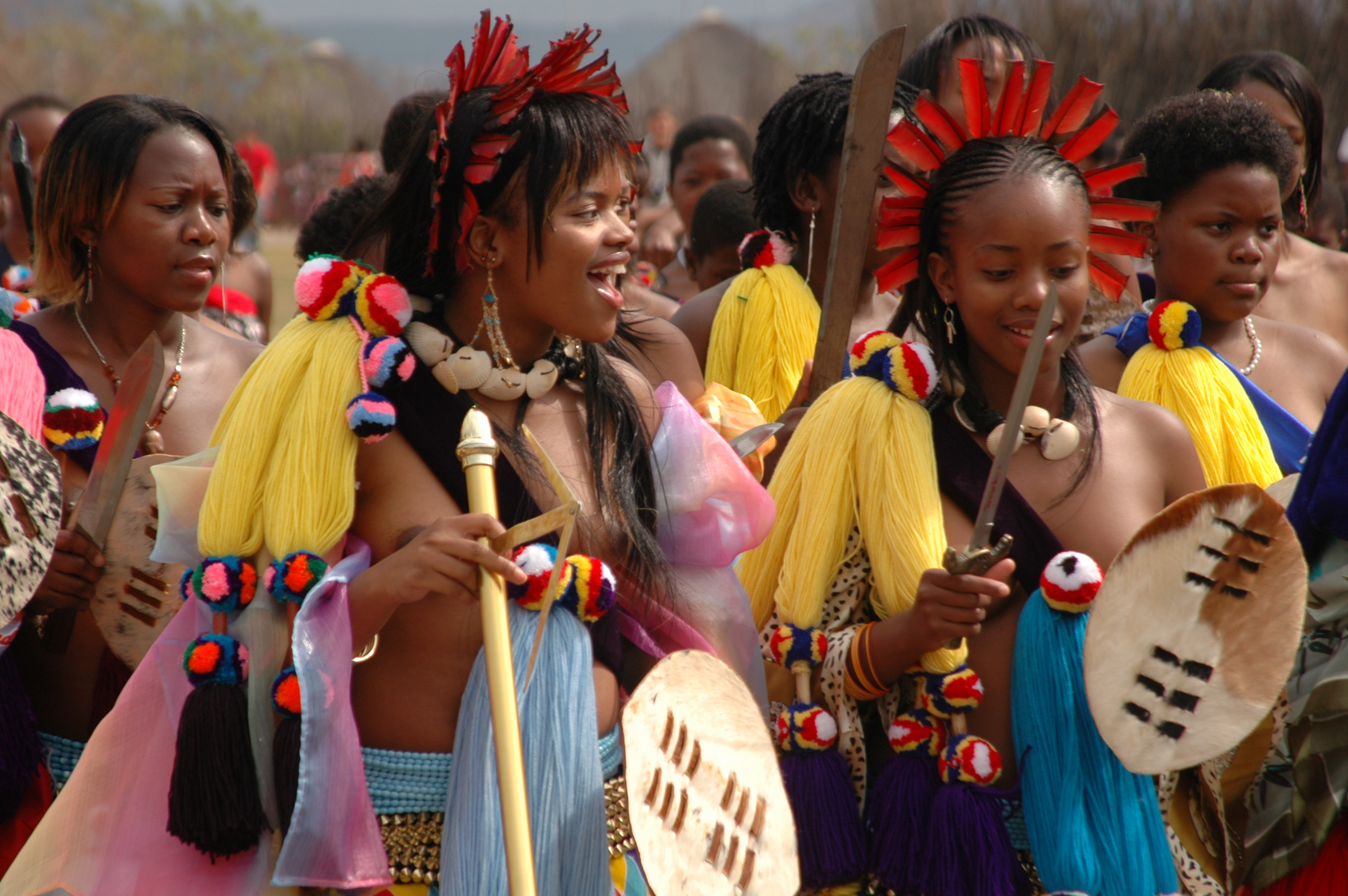 Princess Sikhanyiso Dlamini [left] and Temtsimba Dlamini [right] at the Reed dance festival in Swaziland 2006. She is daughter of the first wife of the king.